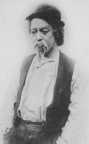 Sasanji Ichikawa II (1880–1940) as Sachin in Sachin